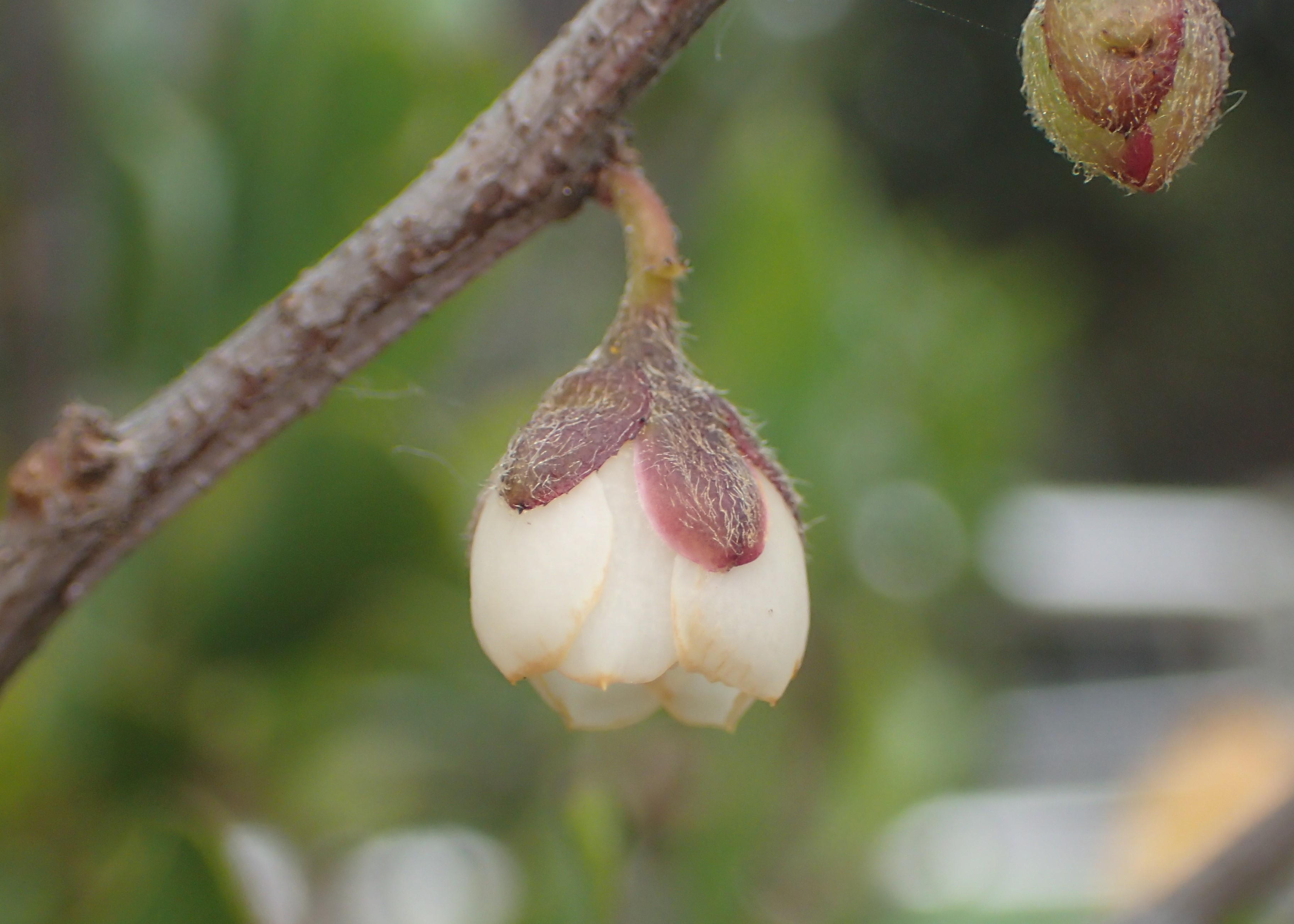 Visnea mocanera in Jardines Juan Acosta Rodríguez, Orotava, Tenerife